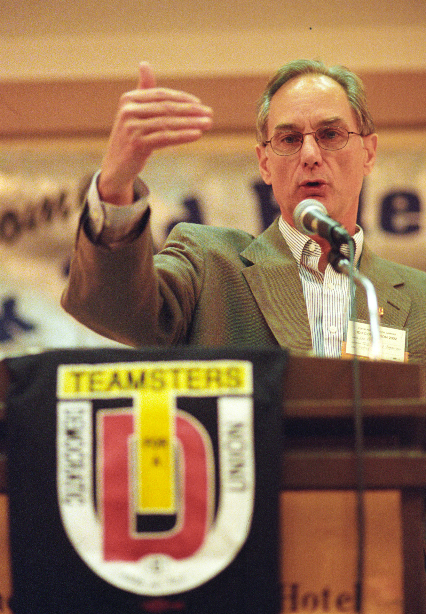 Photograph of TDU National Organizer Ken Paff, addressing the TDU Convention.